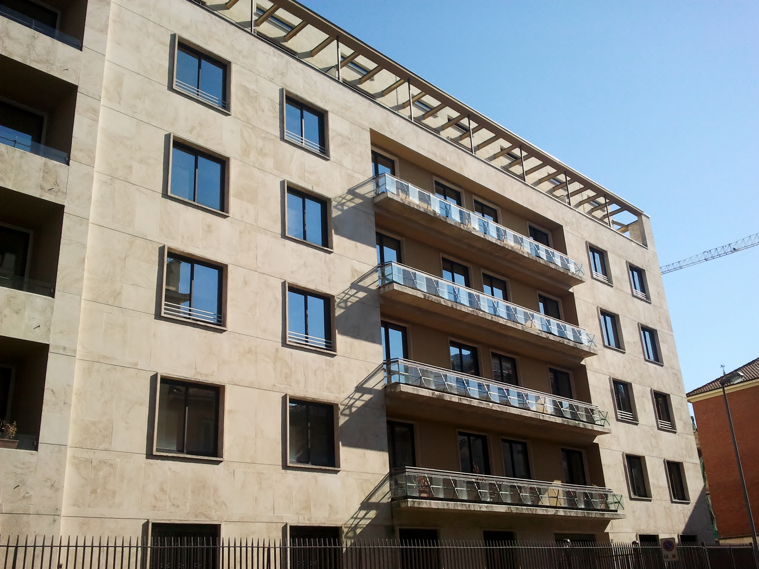 Fiat World Headquarters Complex at Corso Marconi 10. Side view. Torino. Italy